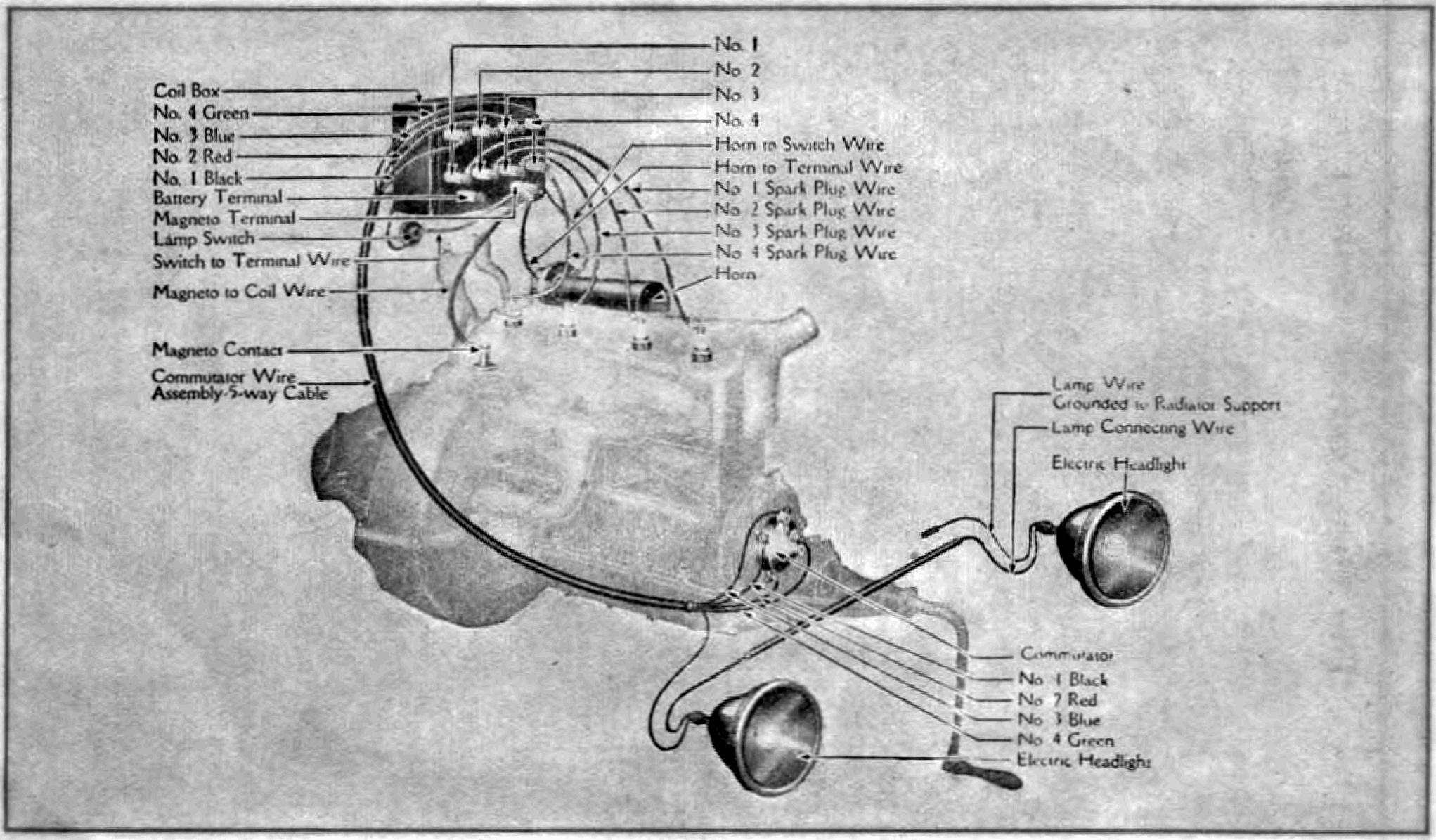 ignition system